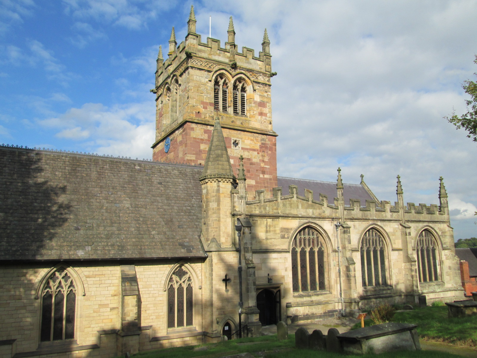 Parish Church of the Blessed Virgin Mary, Ellesmere, viewed from the south.